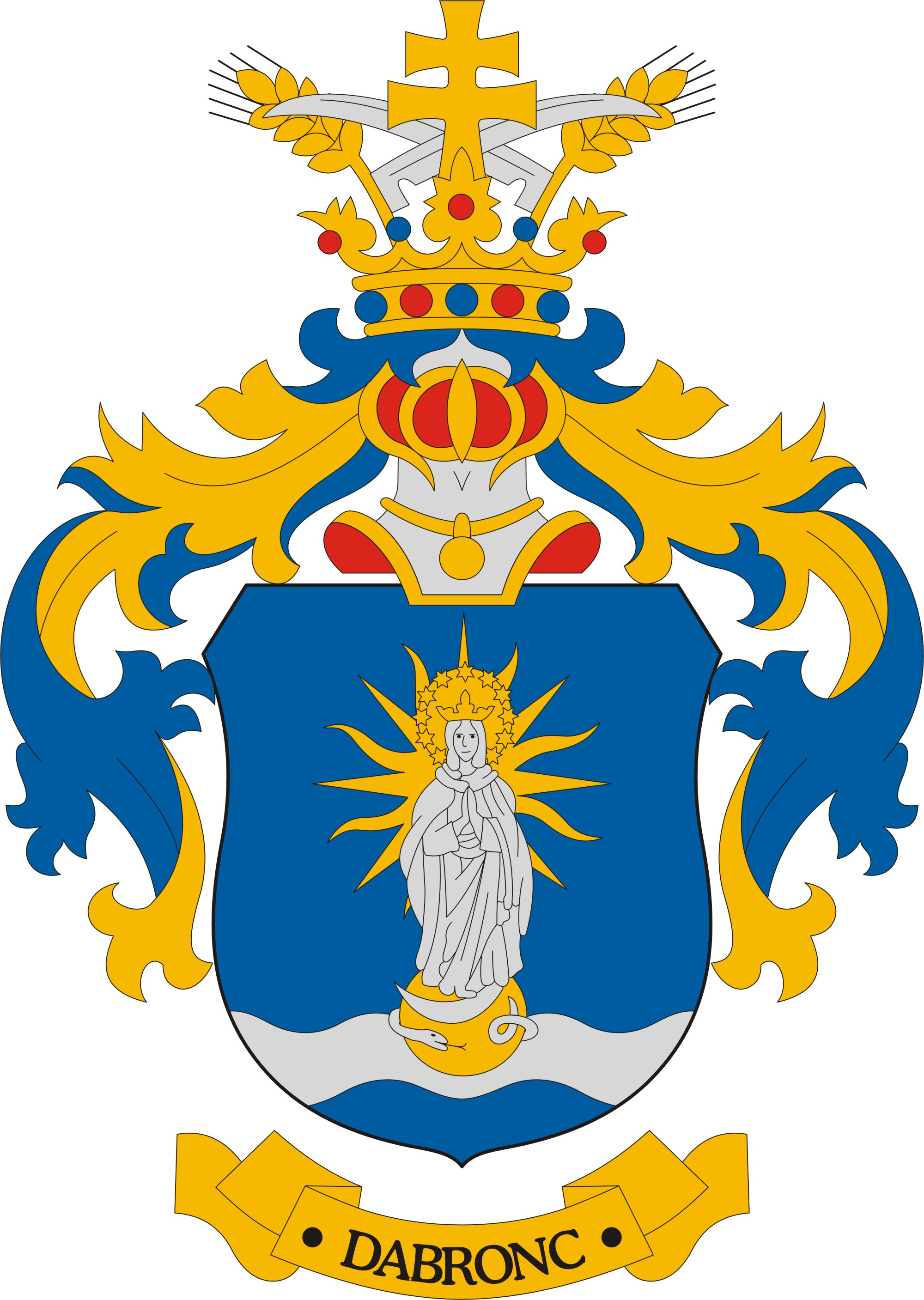 Coat of arms of Dabronc, Hungary